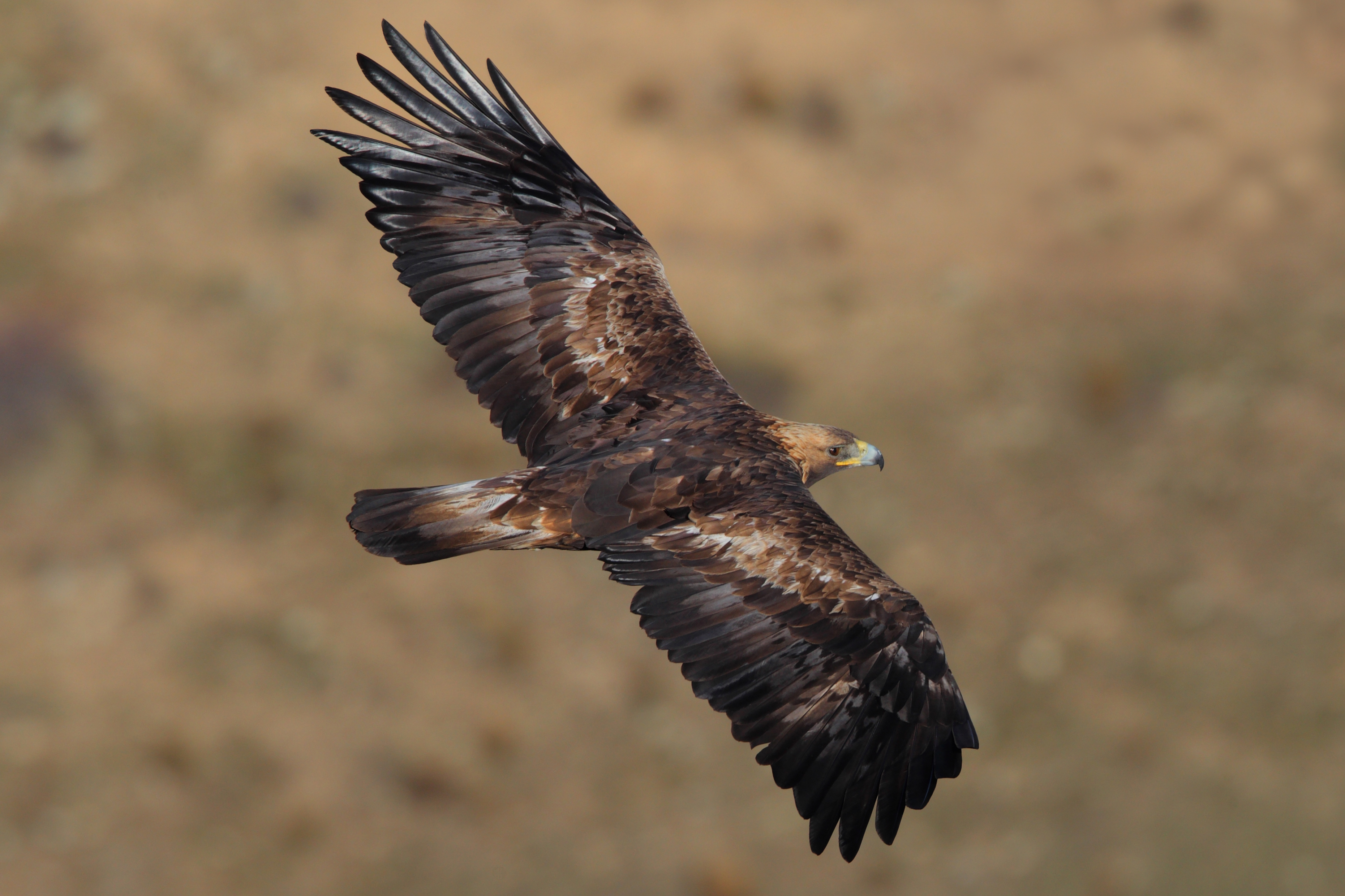 Golden Eagle (Aquila chrysaetos) - La Cañada, Ávila, Spain